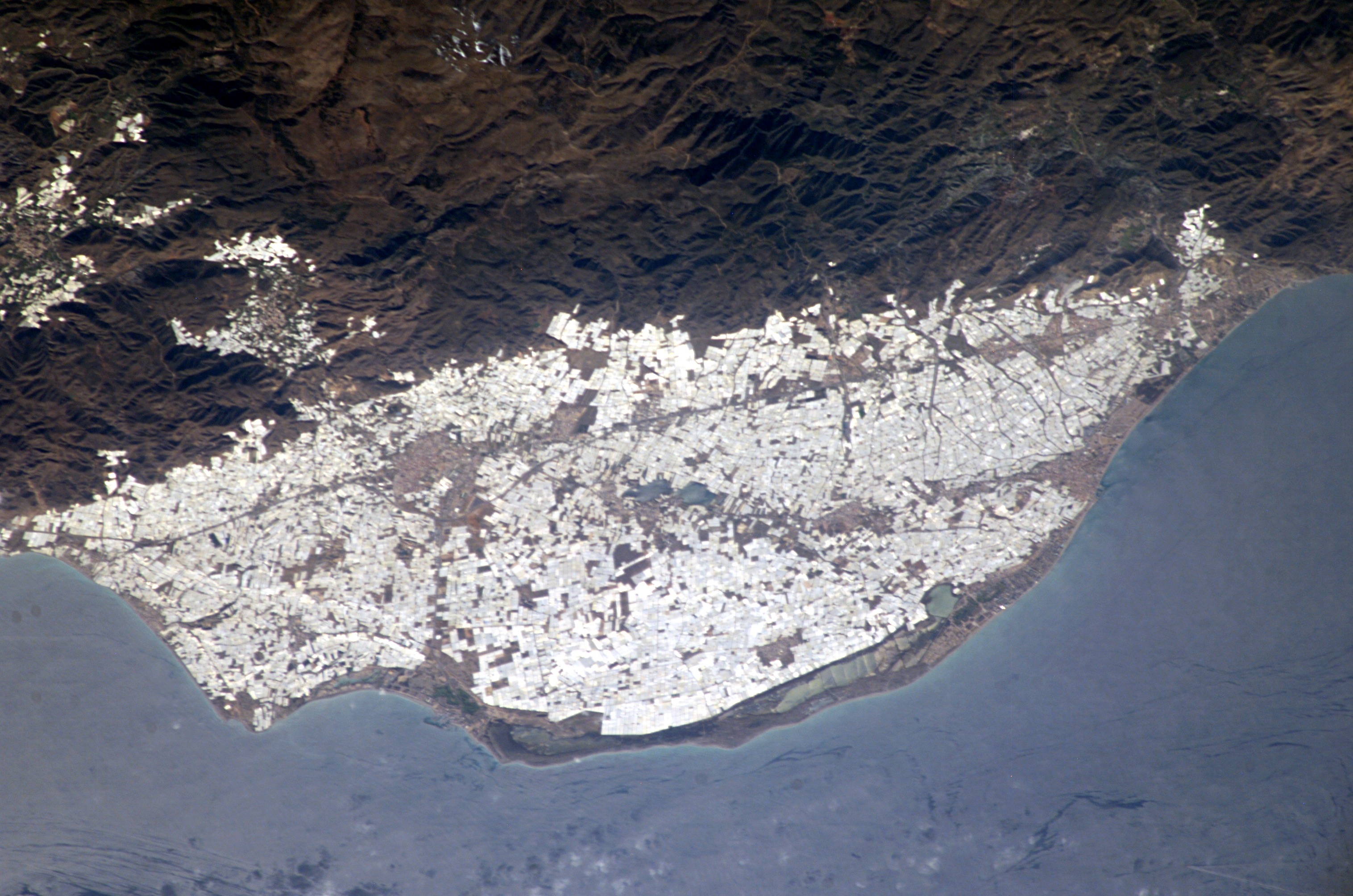 Sea of plastic, in Almería, Spain. Over 200 square km of greenhouses.